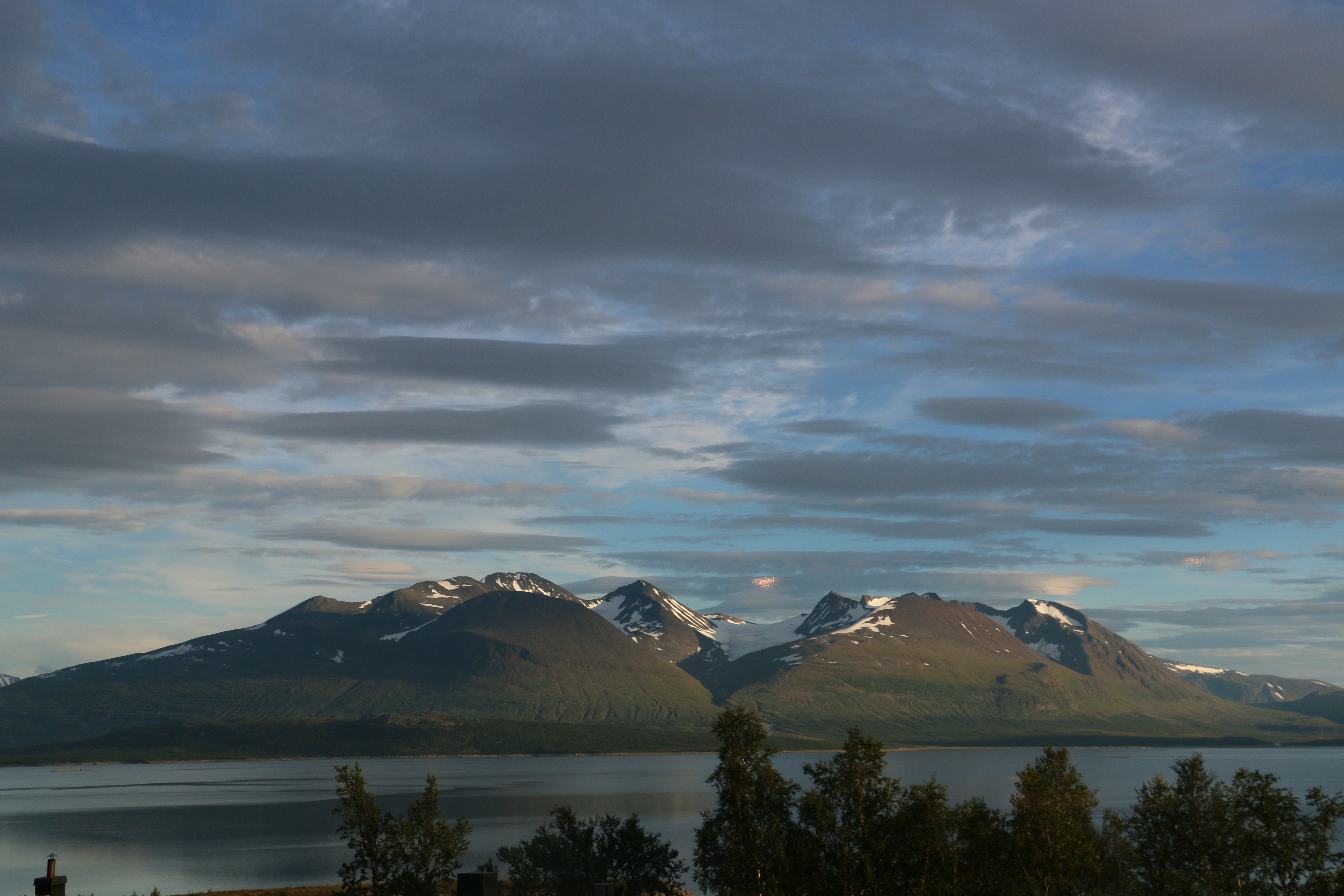 Akka mountain seen from Ritsem